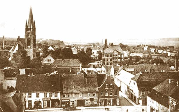 Driesen / Neumark about 1900